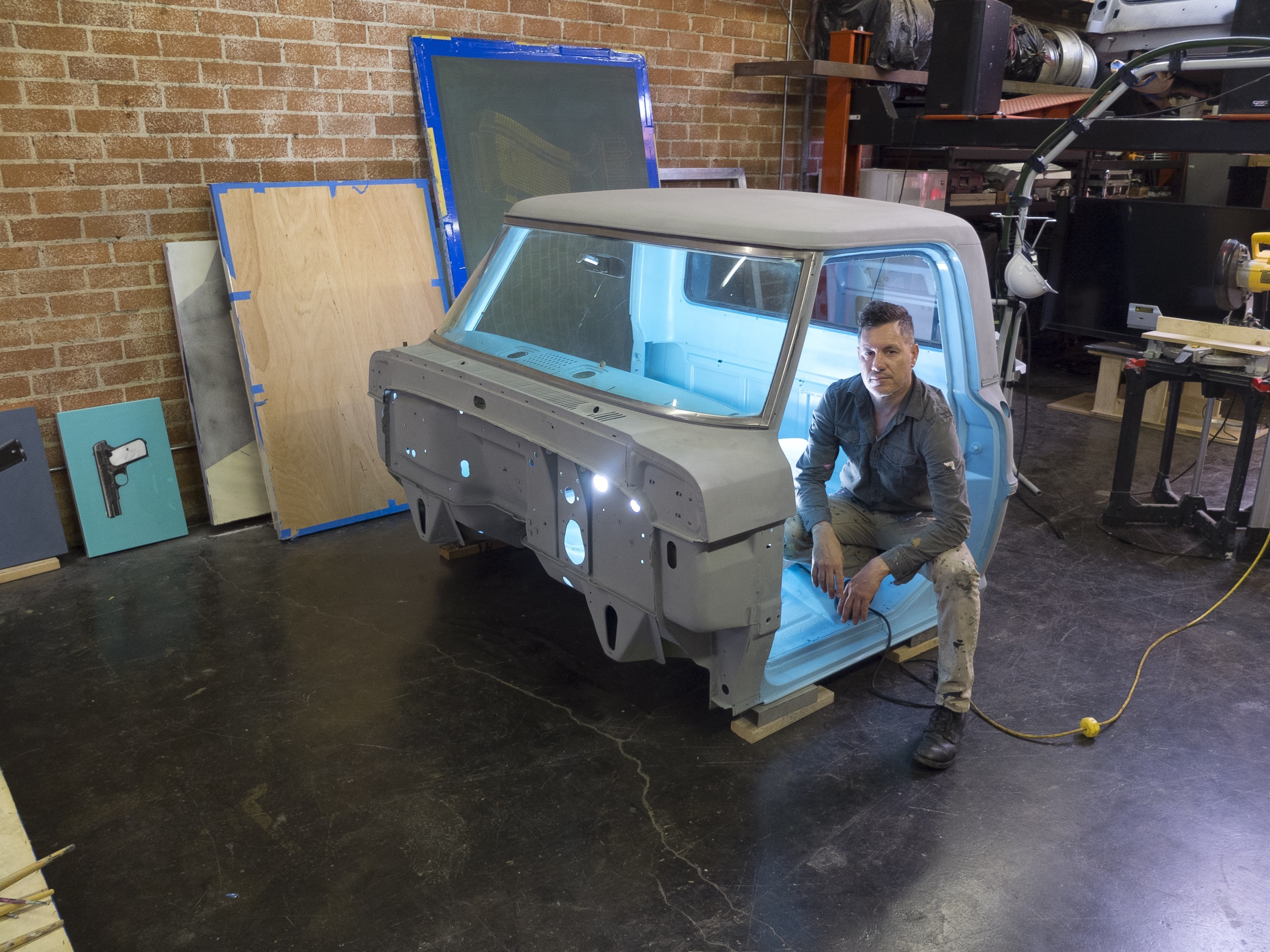 This is a photo of James Georgopoulos with one of works in 2014, to be used on his wiki:James Georgopoulos